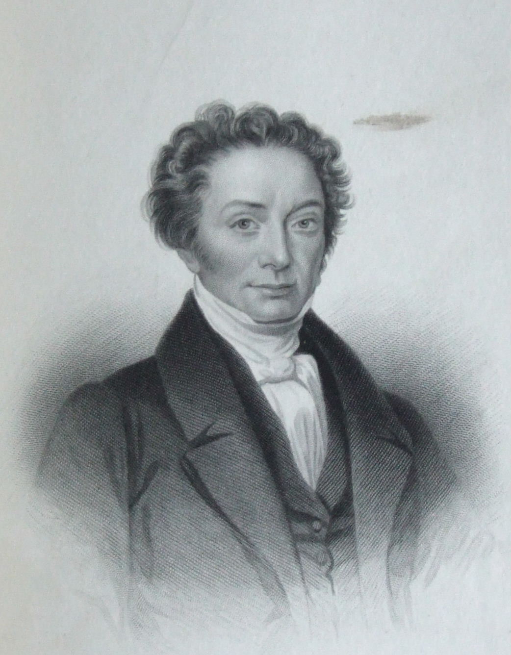 19th century Welsh-language poet and hymnwriter Evan Evans (Ieuan Glan Geirionydd), engraving in Ceinion Llenyddiaeth Gymreig (1876)